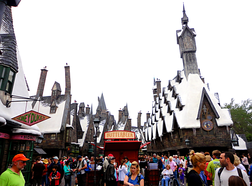 Entry of the Wizarding World of Harry Potter, in Orlando, Florida.